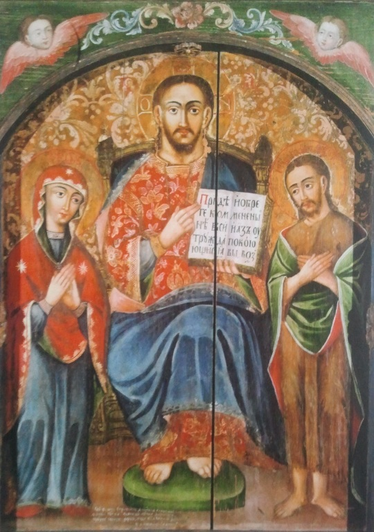 Artist - Markianovich. Deesis. 1758.